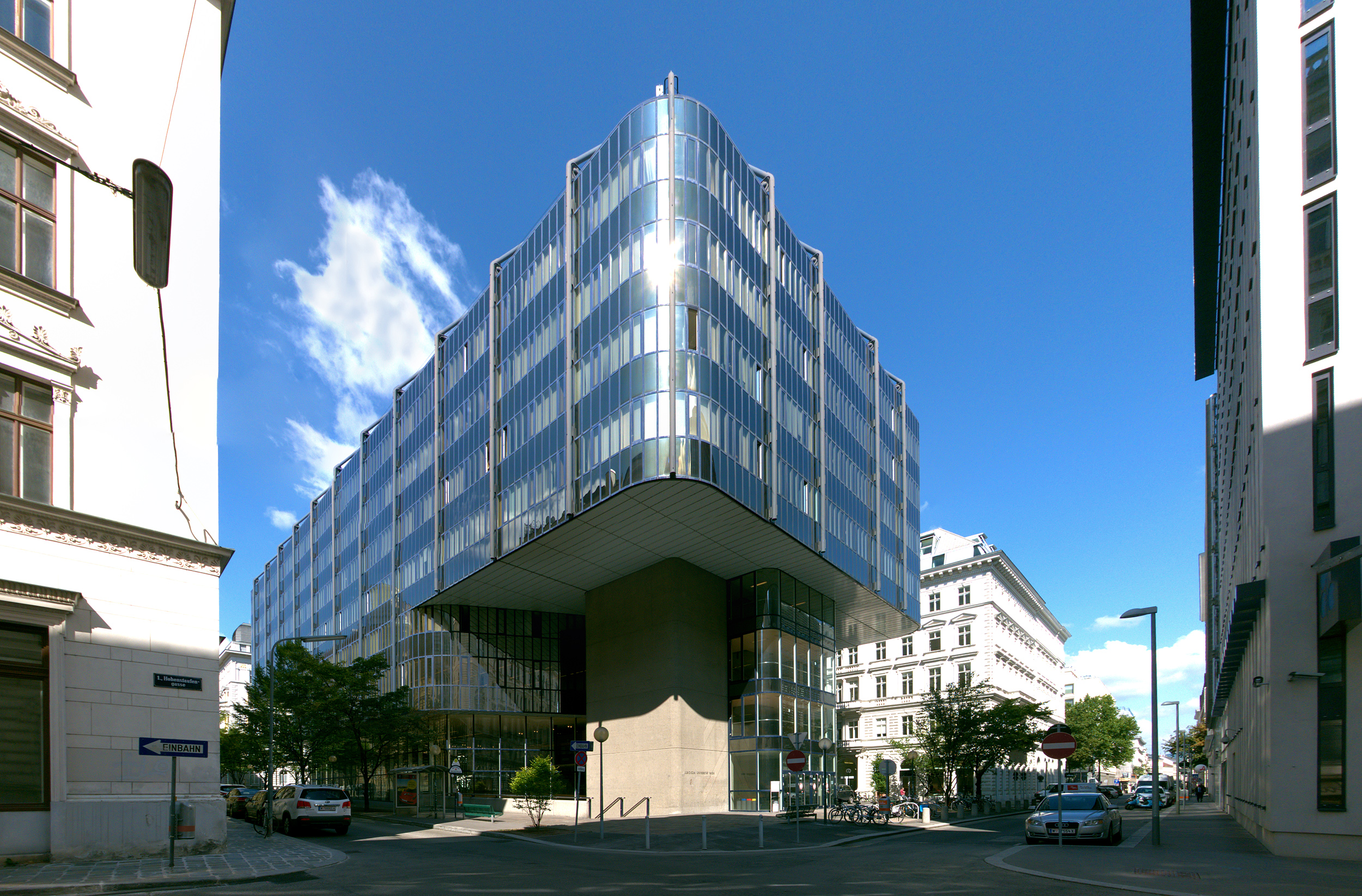 The Juridicum building in Vienna, hosting the Law department of Vienna University